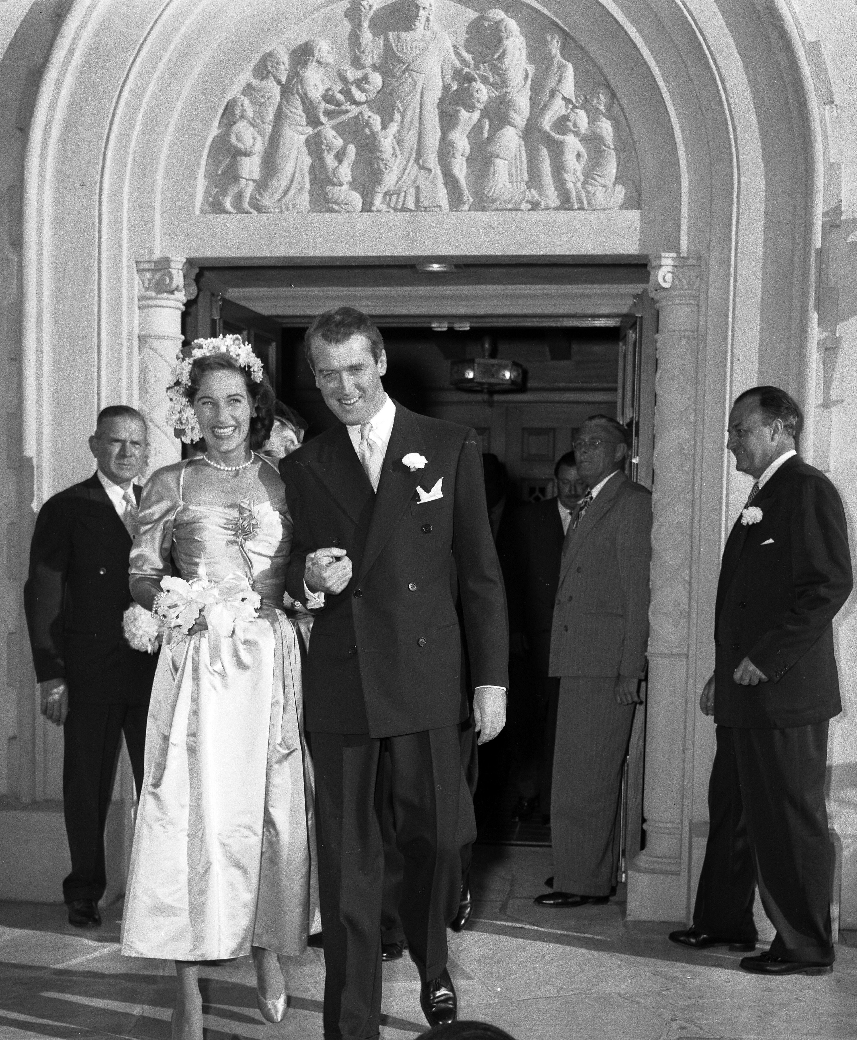 Actor James Stewart and Gloria Hatrick McLean walking out of Brentwood Presbyterian Church after their wedding ceremony, 1949